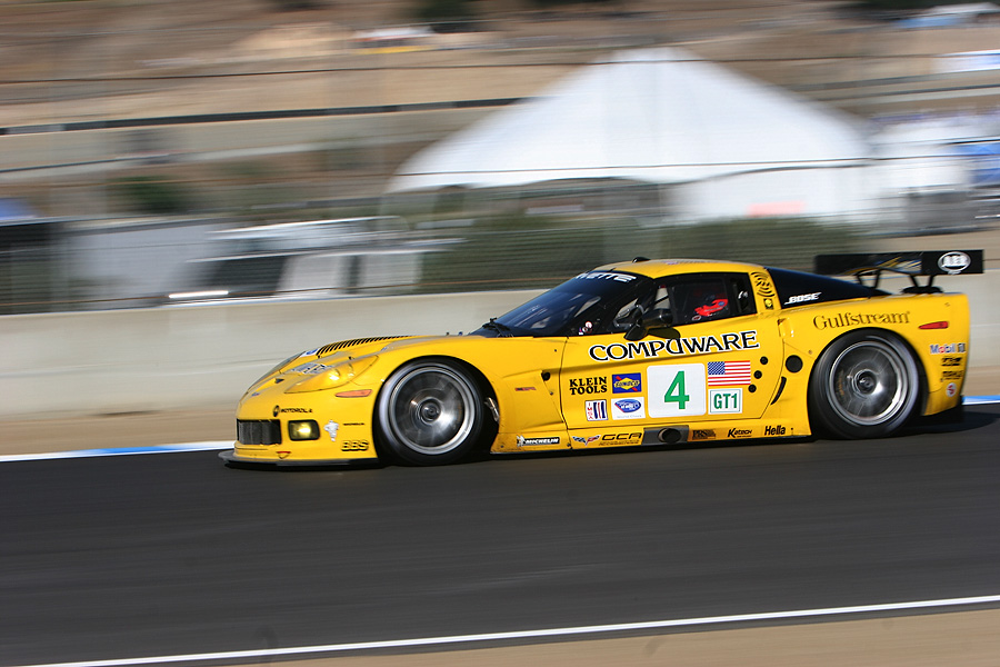 The #4 Chevrolet Corvette C6.R (Oliver Gavin driving)